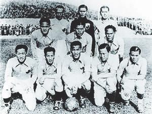 chinese olympic football team at berlin olympic game (1936) This movie or image from a movie is now in the public domain because its term of copyright has expired in Mainland China, Macau, and Taiwan (but not necessarily Hong Kong per warning below). A cinematographic work, a work created by virtue of an analogous method of film production or a photographic work is copyrighted for 50 years since the first publication in Mainland China, Macau (photographic works copyrighted 25 years from completion), and Taiwan according to article 21 of 3 Term of Protection for Rights Copyright Law of the People's Republic of China, Decree-Law 43/99/M of August 16, 1999 of Macau, and Article 30 of the Copyright Act of the Republic of China in effect in Taiwan. Warning: This tag must not be used for Hong Kong films that are copyrighted there for life plus 50 years, computed from the last of the following persons with known identity to survive: (a) the principal director; (b) the author of the screenplay; (c) the author of the dialogue; or (d) the composer of music specially created for and used in the film. However, Hong Kong accepts the rule of the shorter term for non-Hong Kong works.